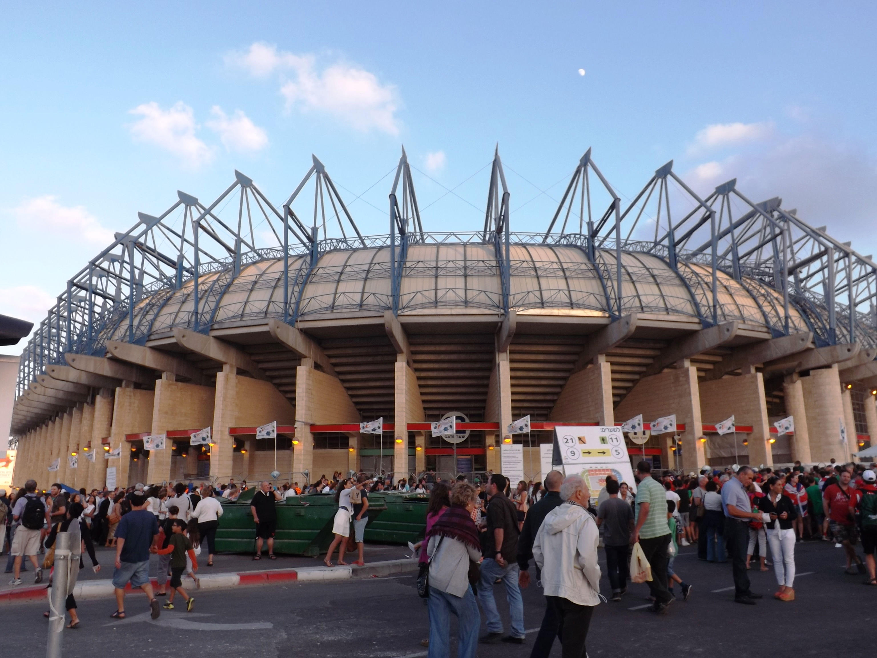 Teddy Kollek Stadium, Jerusalem